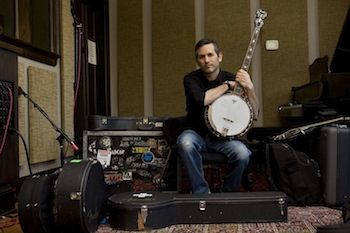 thumbnail of BobSchmidt_IMG_8243